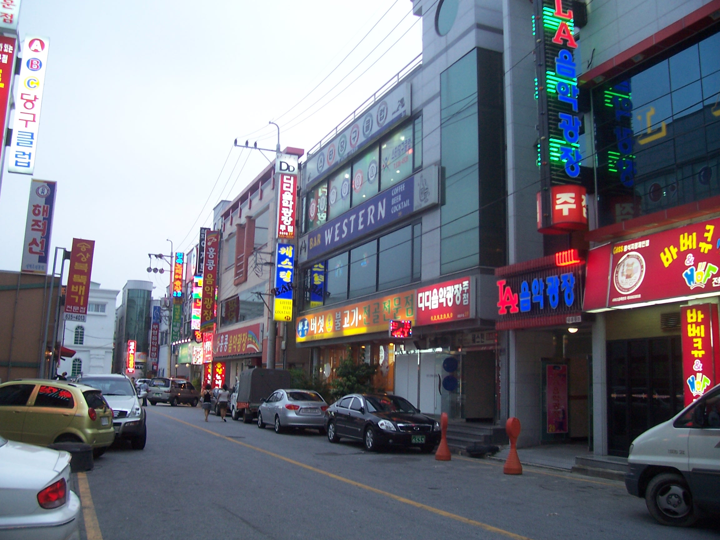 Dotong - Dong (A collection of many restaurants, karaoke clubs, and bars.)